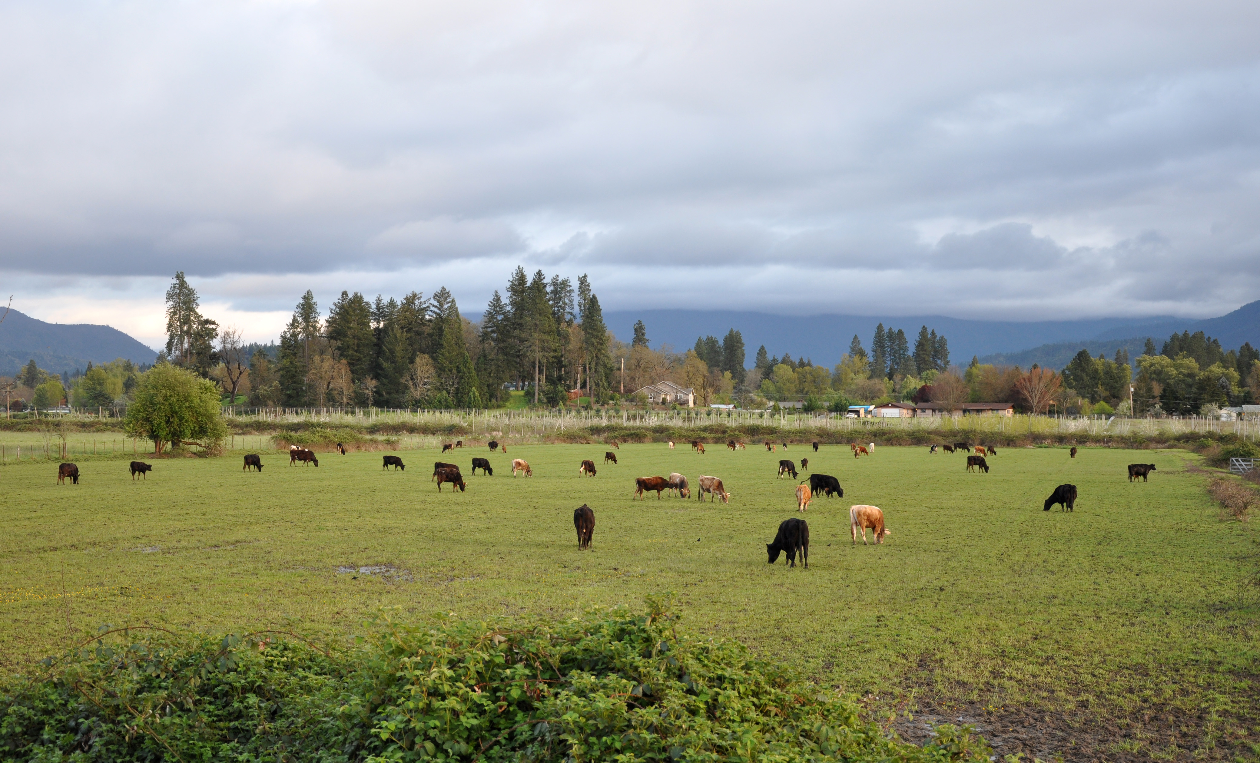 Cattle graze in a field near Grants Pass in the U.S. state of Oregon. About 6 percent of the Rogue River watershed is devoted to farming.